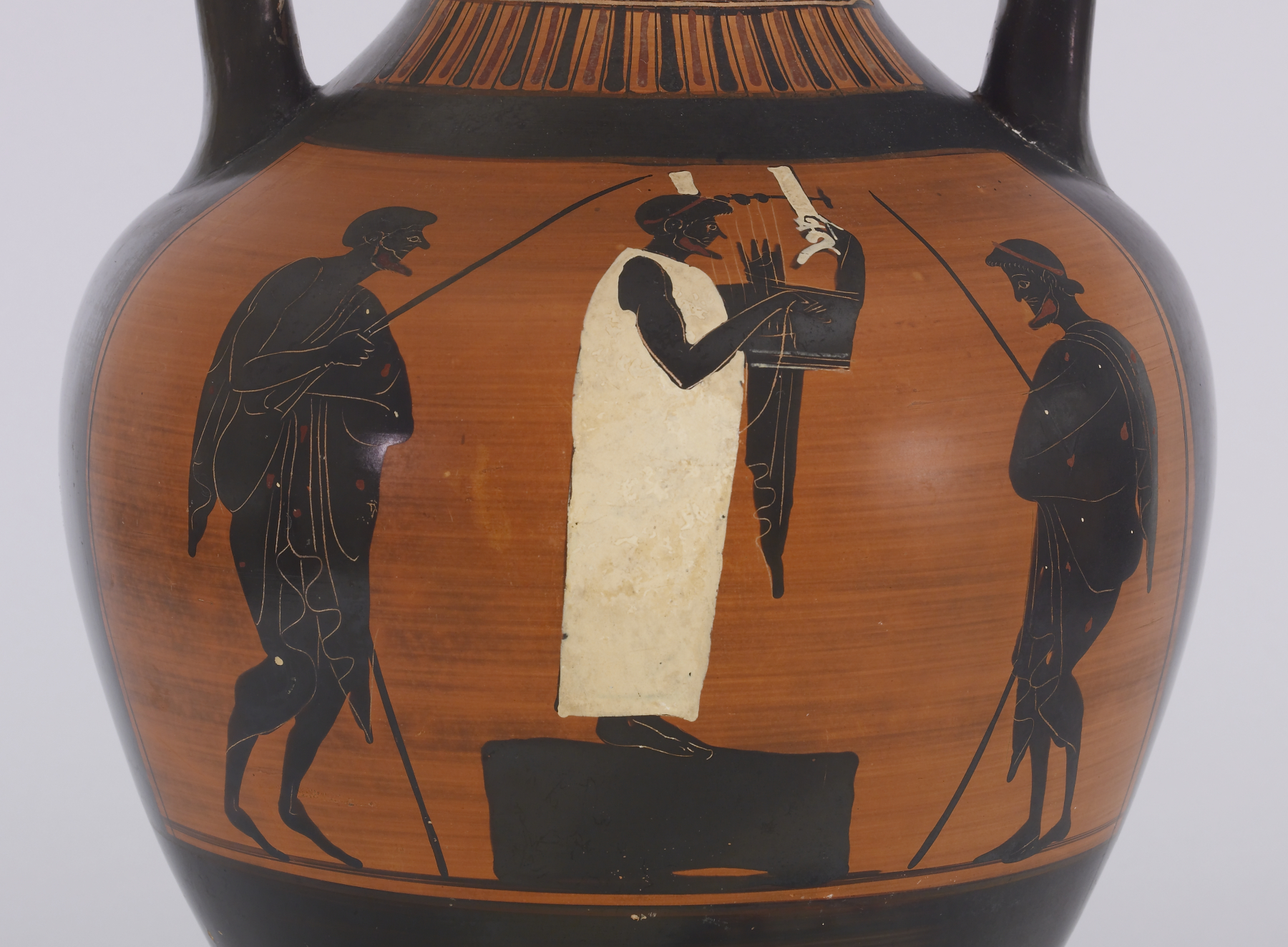 The image on the obverse of this amphora may represent the "mousikoi agones," or musical competitions, of the Panathenaic festival (Bundrick 2005, 160-74). In the center of the scene, a bearded man clad in an ankle-length white chiton stands on a "bema," or podium. Facing right, he holds a large seven-stringed kithara in this left hand. With his right hand, he plays the instrument, using a plectrum attached by a string. The kithara's cover hangs below. Added white paint has been applied to the arms of the elaborate kithara to simulate ivory. One man stands on either side of the bema, perhaps representing spectators, trainers, or judges of the competition. The kithara was a highly esteemed instrument in Archaic Greece, and both Apollo and Orpheus were mythological models for human performers (Shapiro 1992, 69). Herodotus (1.23-24) reports the story of Arion, a highly regarded and successful kitharode who was thrown overboard from a ship by men who conspired to rob him. According to the tale, Arion was saved by a dolphin and returned to shore unharmed, which suggests that kitharodes were believed to have enjoyed the patronage of Apollo. The image on this vase finds a heroic counterpart in the representation of Herakles Mousikos, in which the hero appears as the performer, often with Olympic deities as spectators. On the amphora's obverse, Athena strides to the left, wearing her characteristic helmet and scaly aegis. The goddess wields a spear and holds a large shield decorated with a soaring eagle. Two Doric columns, each with a rooster perched on top, flank the goddess. This is the standard configuration for one side of the Panathenaic amphora, which was given as a prize at the quadrennial games in honor of the patron goddess of Athens. However, the size of this vase and the lack of an inscription indicate that it was not actually used as a prize.